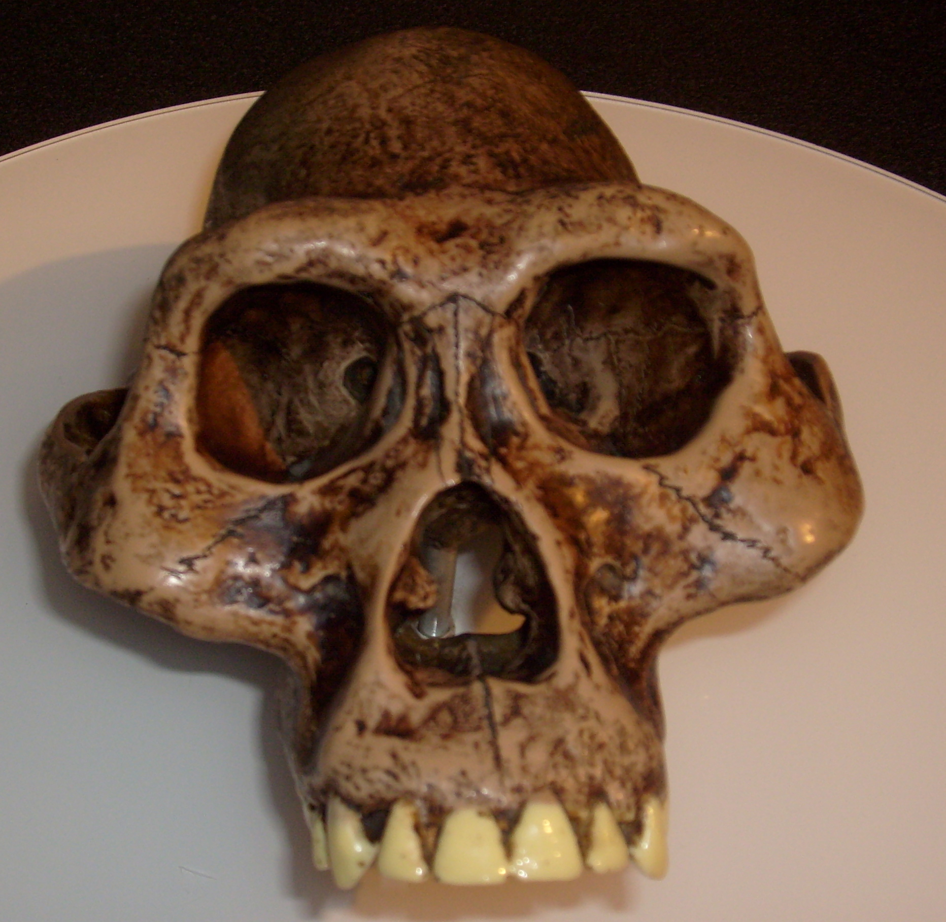 Australopithecus afarensis reconstruction. Displayed at Museum of Man, San Diego, California.